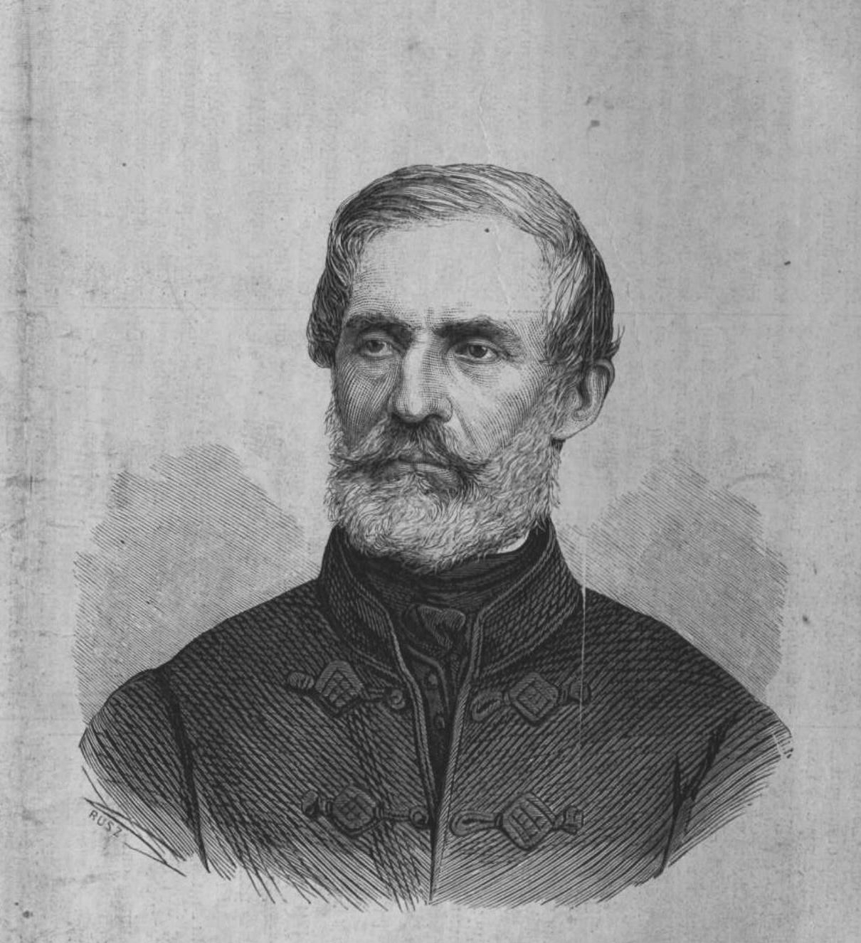 János Warga